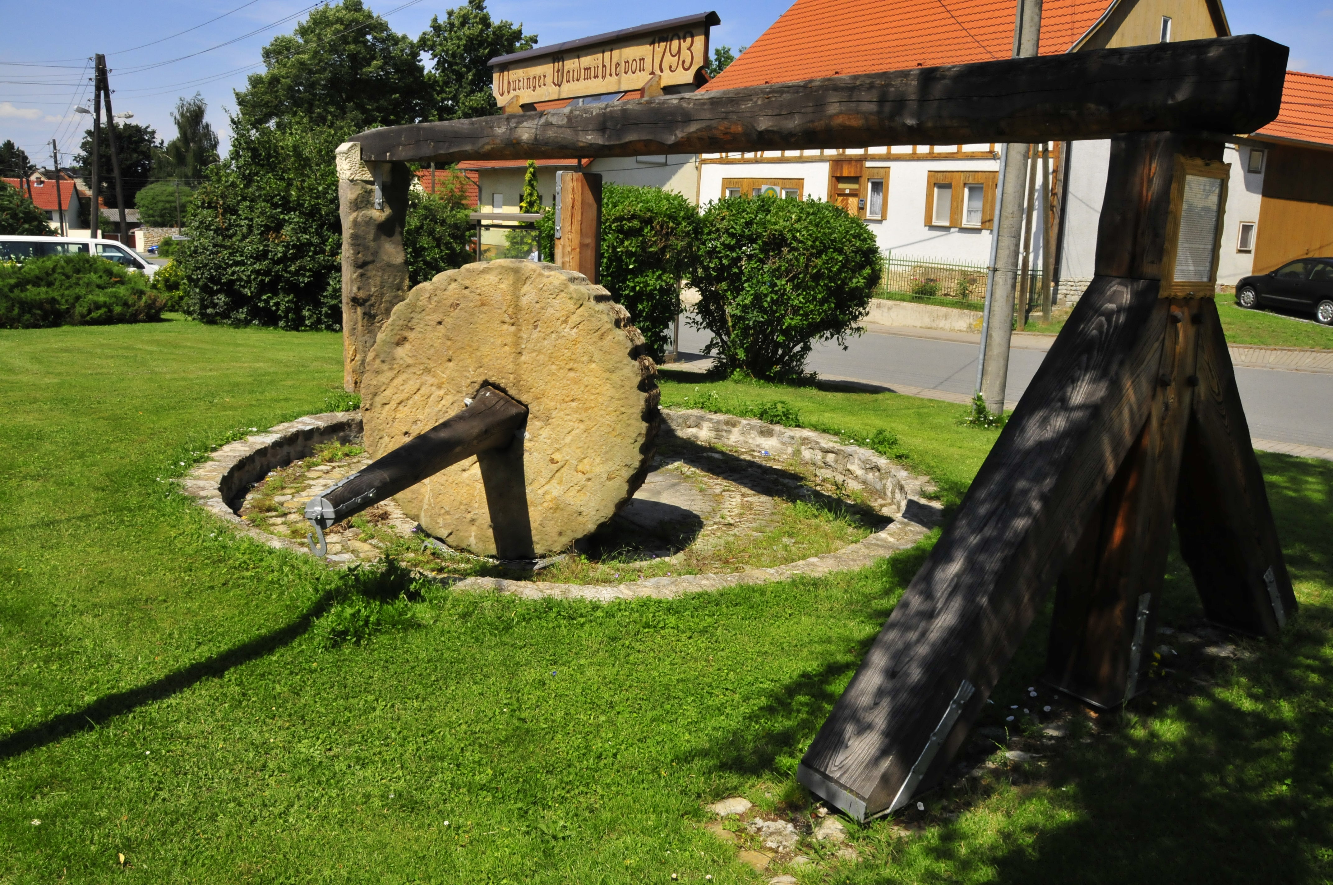 Molschleben, Waid mill